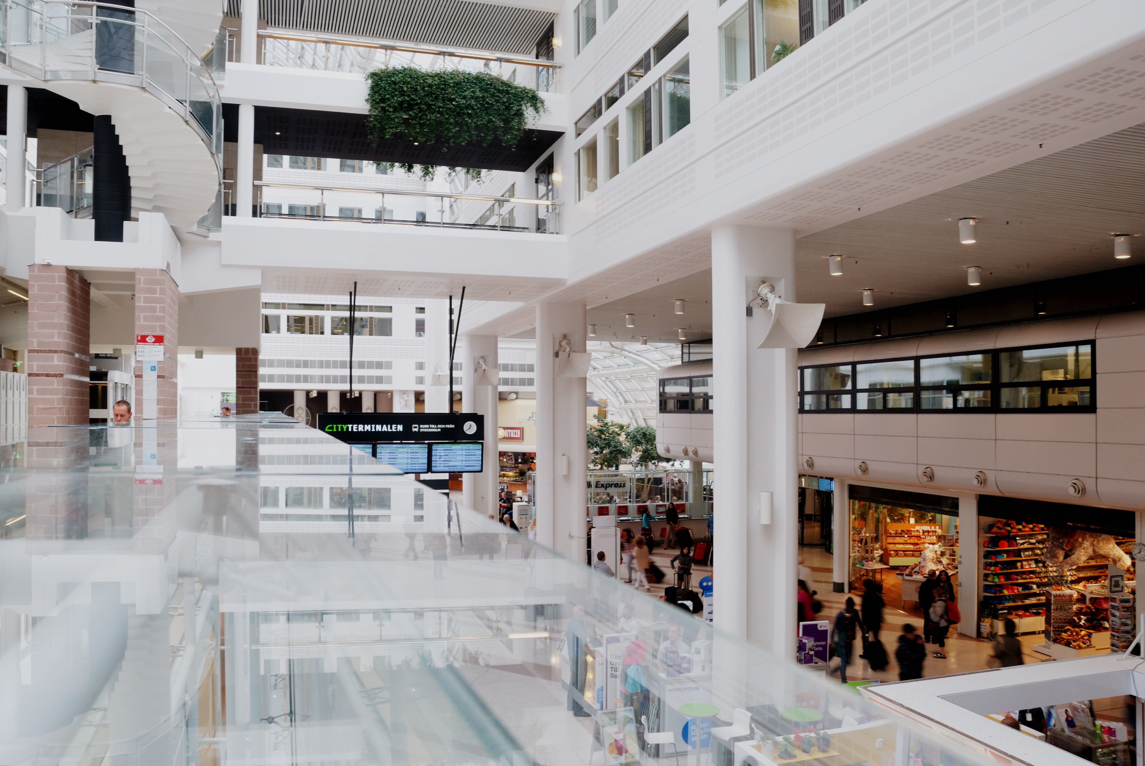 Cityterminalen